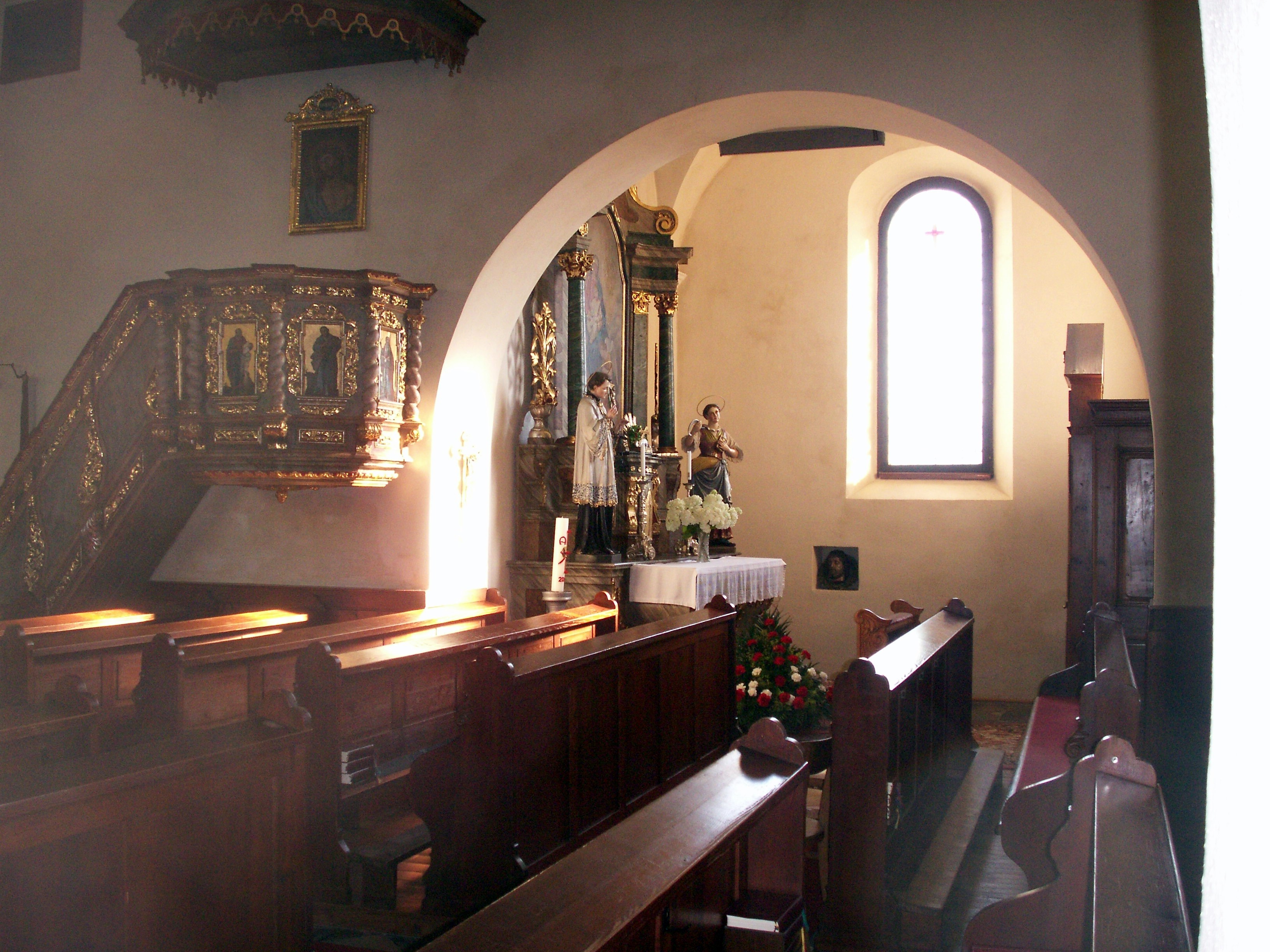 Pulpit and southern side altar in the church of Obermillstatt near Lake Millstatt, district Spittal an der Drau in Carinthia / Austria / EU.